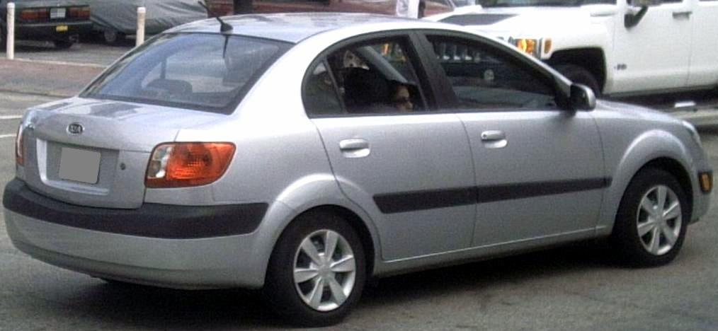 2006 Kia Rio photographed in Miami Beach, Florida, USA.